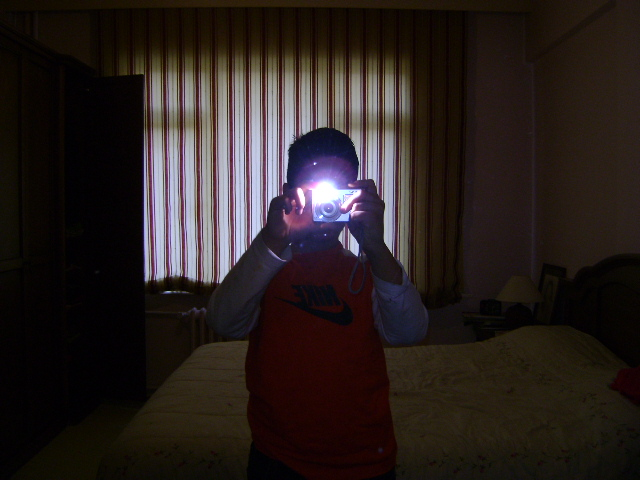 Flaş